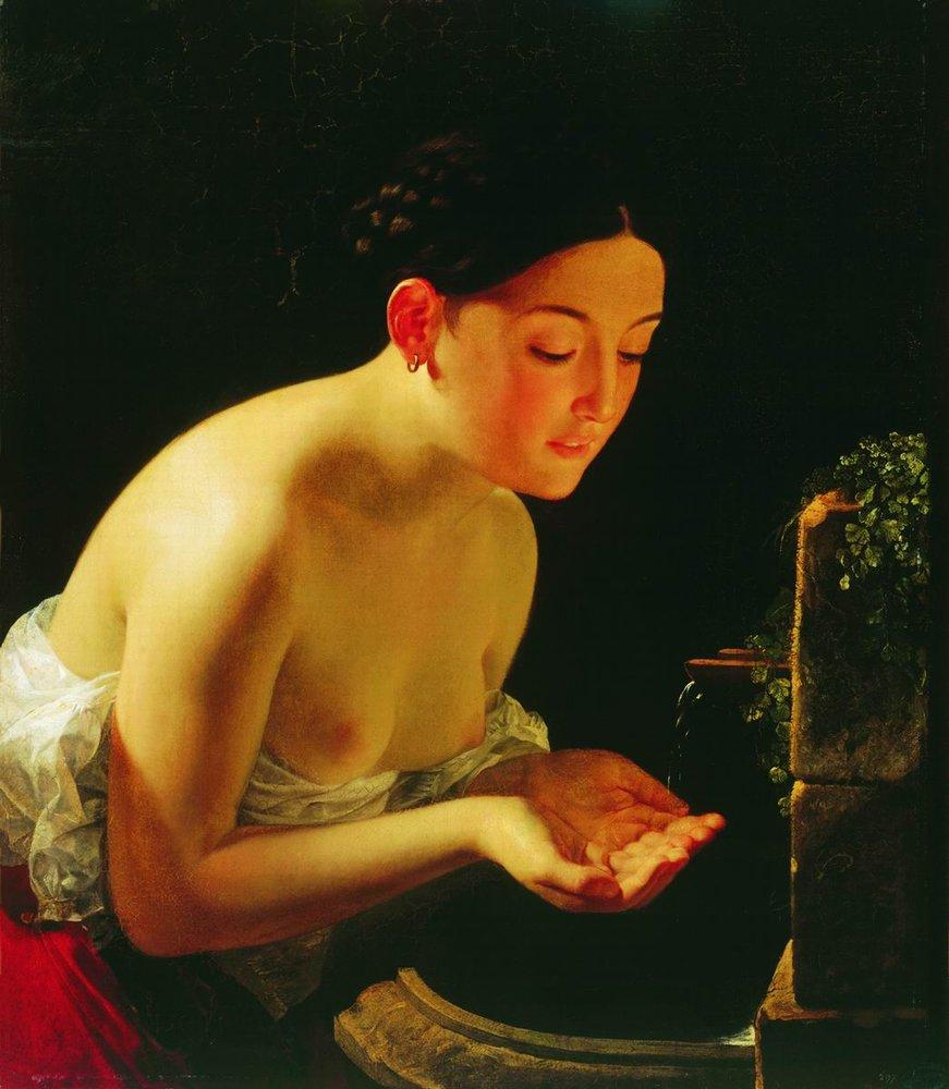 Italian morning, 1823. Oil on canvas. Kunsthalle Kiel, Germany